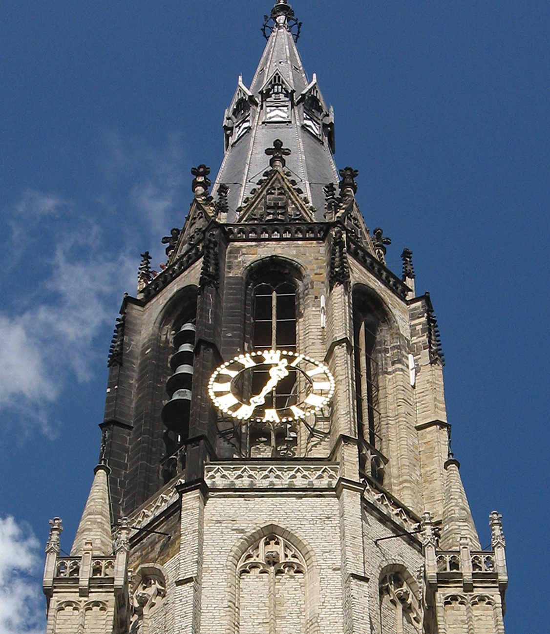 Bentheimer sandstone on the second section of the Nieuwe Kerk's tower.